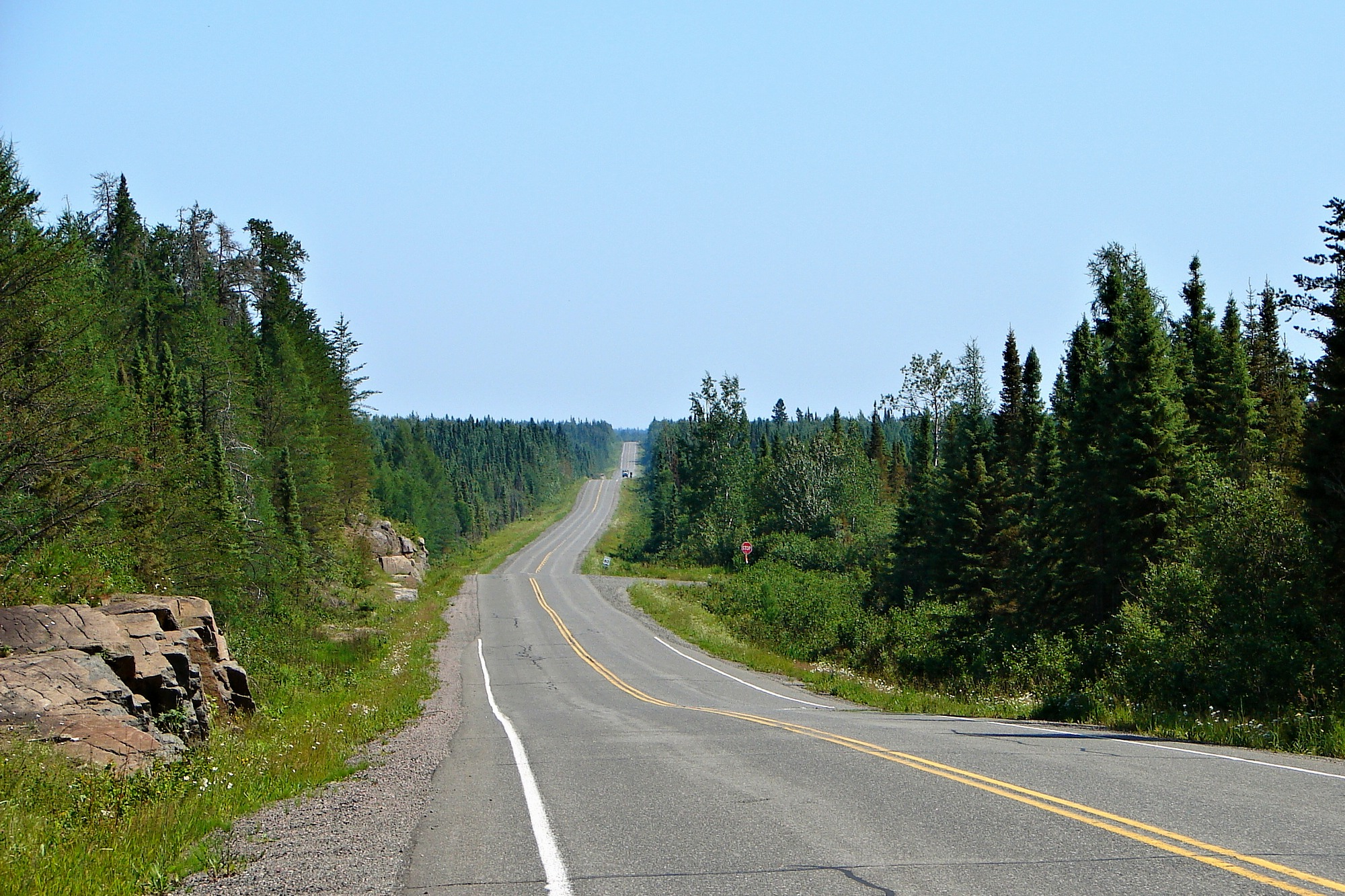 Ontario Highway 527, Thunder Bay District, Ontario, Canada